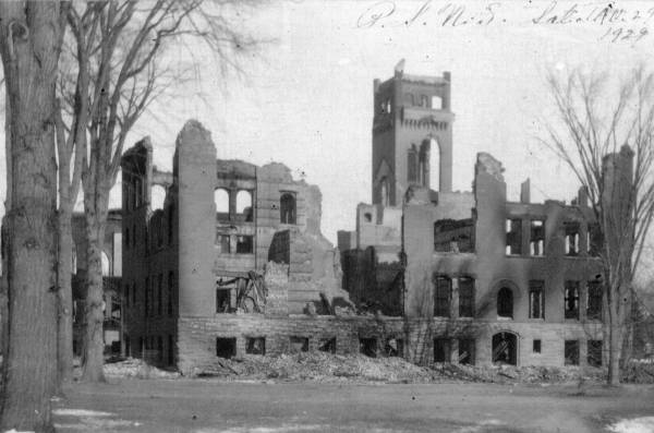 The ruins of the Plattsburgh Normal School in Plattsburgh. The building was destroyed by a massive fire on January 26, 1929.